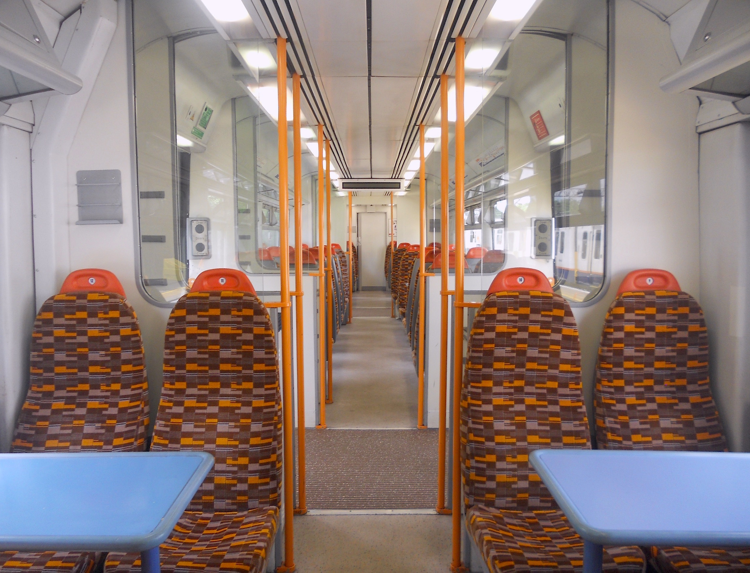 The refreshed London Overground interior of Class 317/7